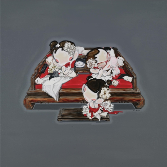 A Faint Fragrance by Han Yajuan which was auctioned for $73,000 on 15 Nov 2007.